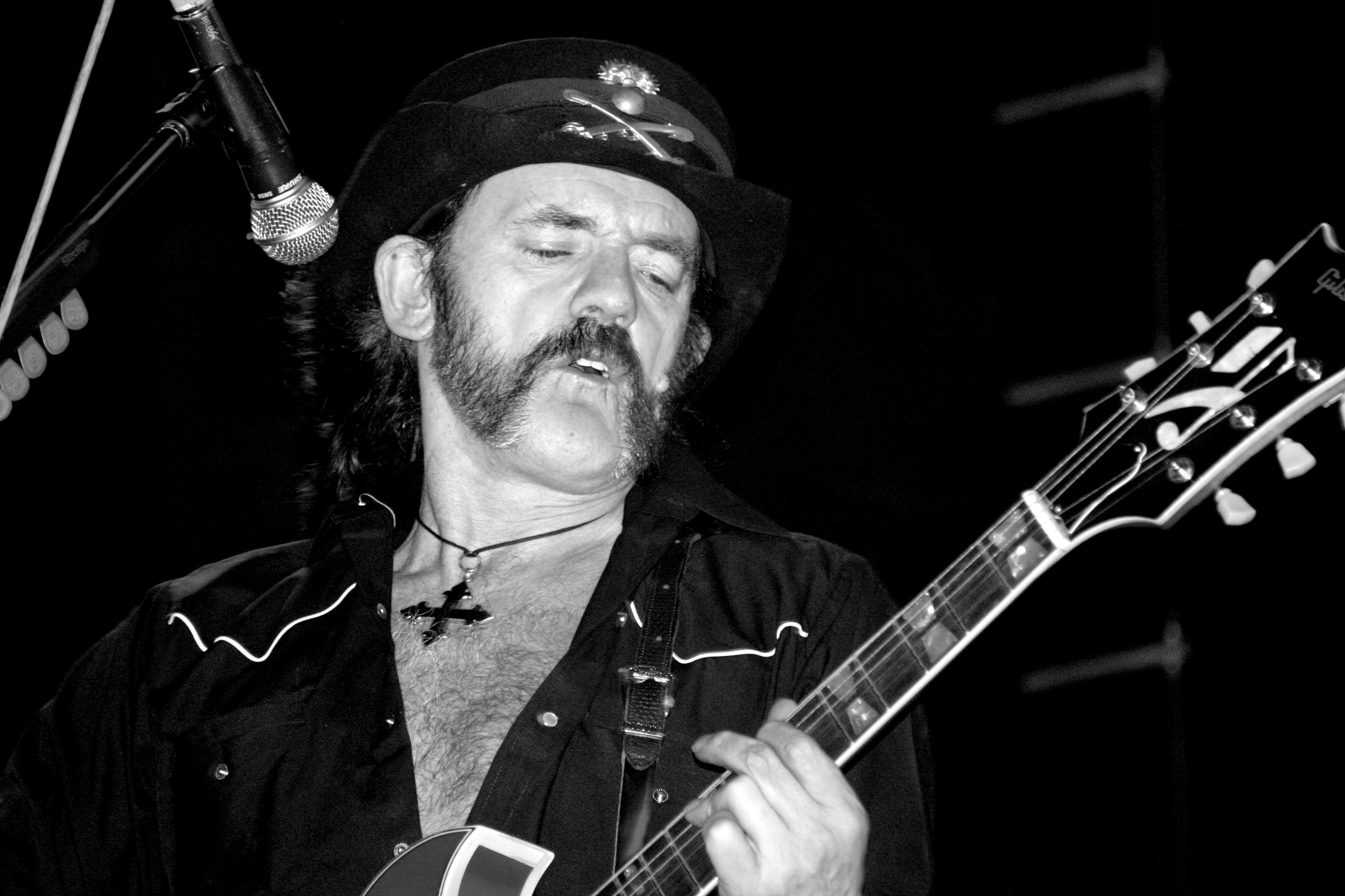 Lemmy Kilmister aka Liam Murphy in Mexico City